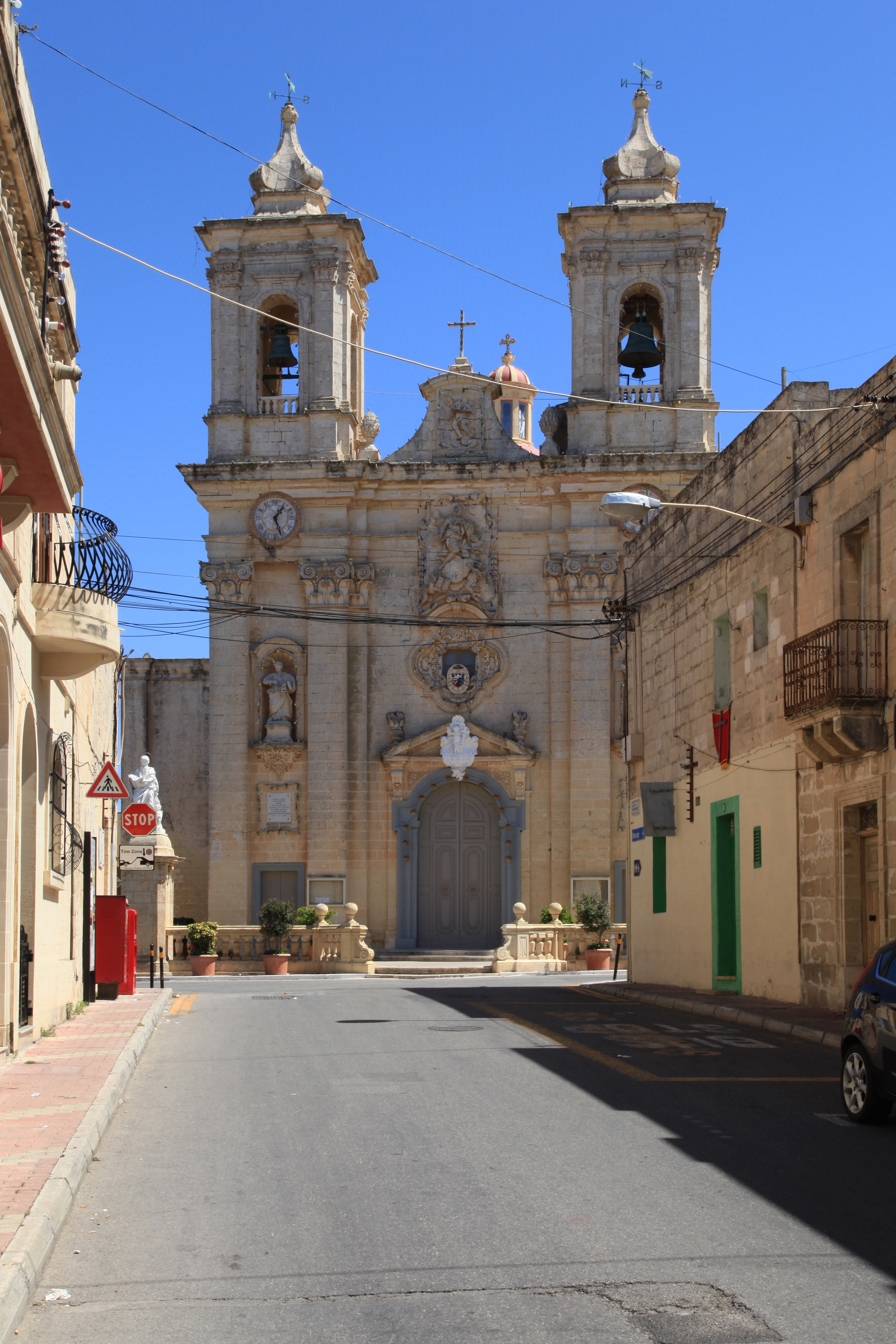 Għargħur Parish Church behind Triq San Bartilmew in Għargħur, Malta